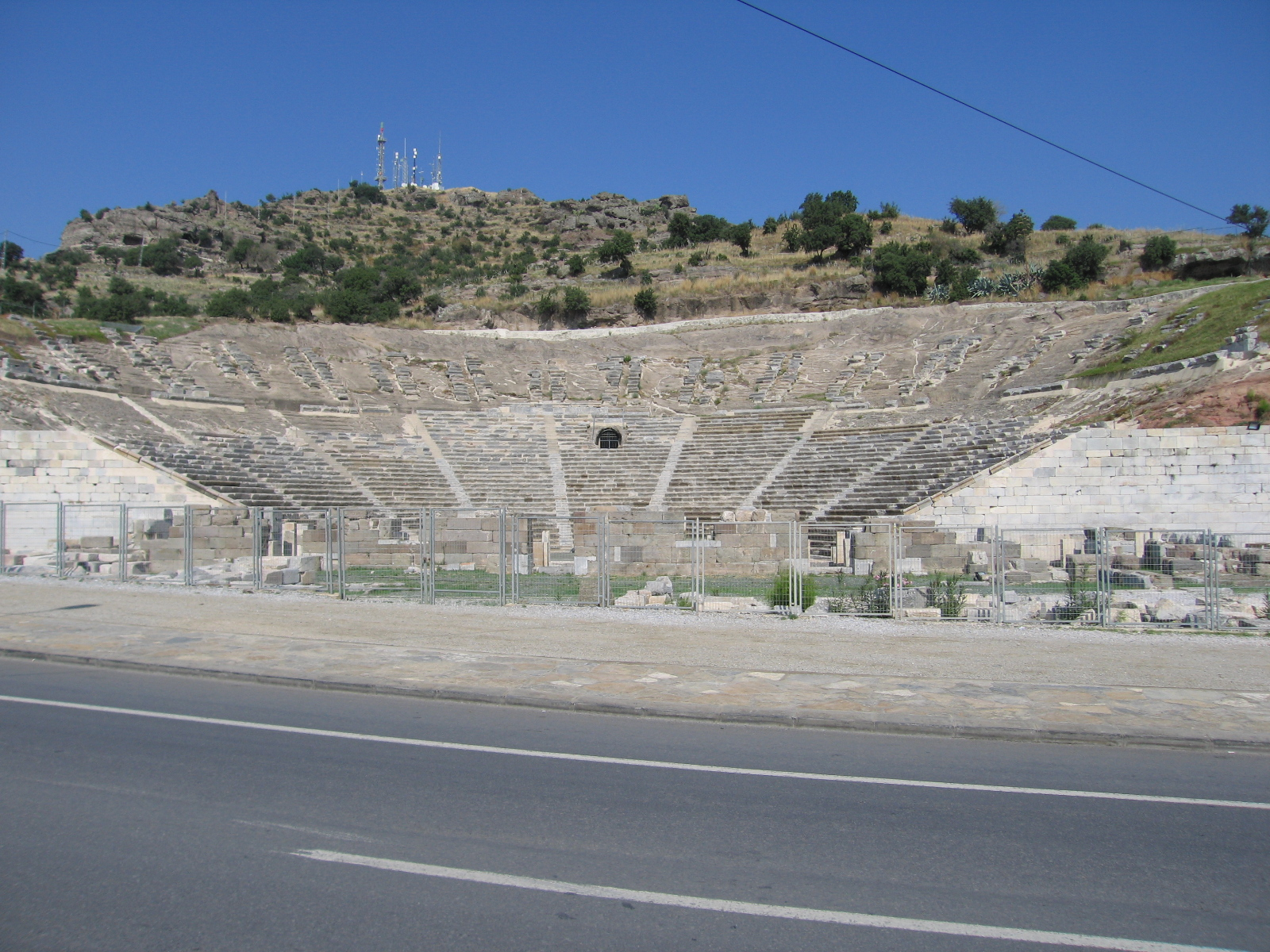 Theatre from Halicarnassos in Bodrum, Turkey